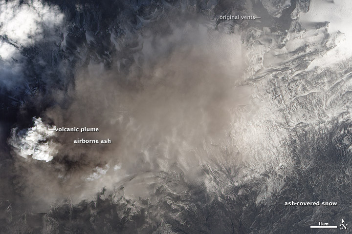 Eyjafjallajokull